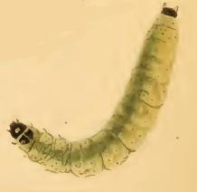 Stainton’s Natural History of the Tineina (1855–1873): Mompha langiella